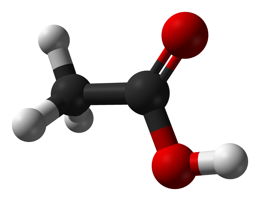 Ball-and-stick model of the acetic acid molecule, C2H4O2. Structural information (determined by gas-phase electron diffraction) from CRC Handbook, 88th edition. Image generated in Accelrys DS Visualizer.